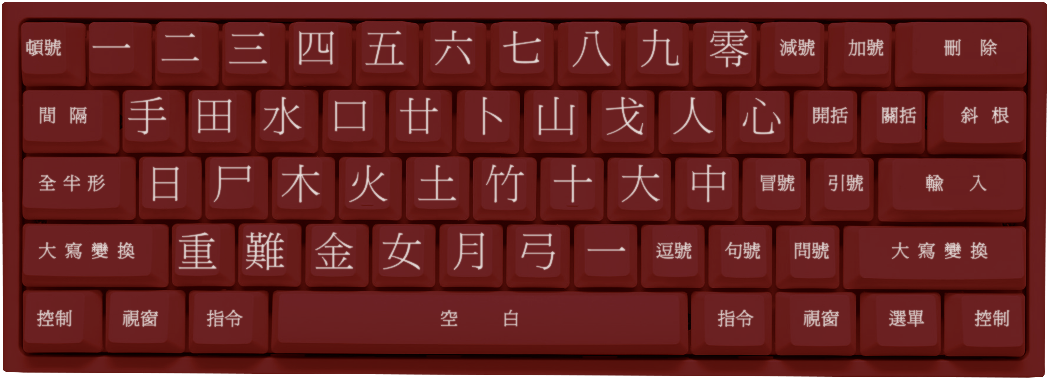 An imitation of the Chinese Keyboard appeared in 007's Tomorrow Never Dies.